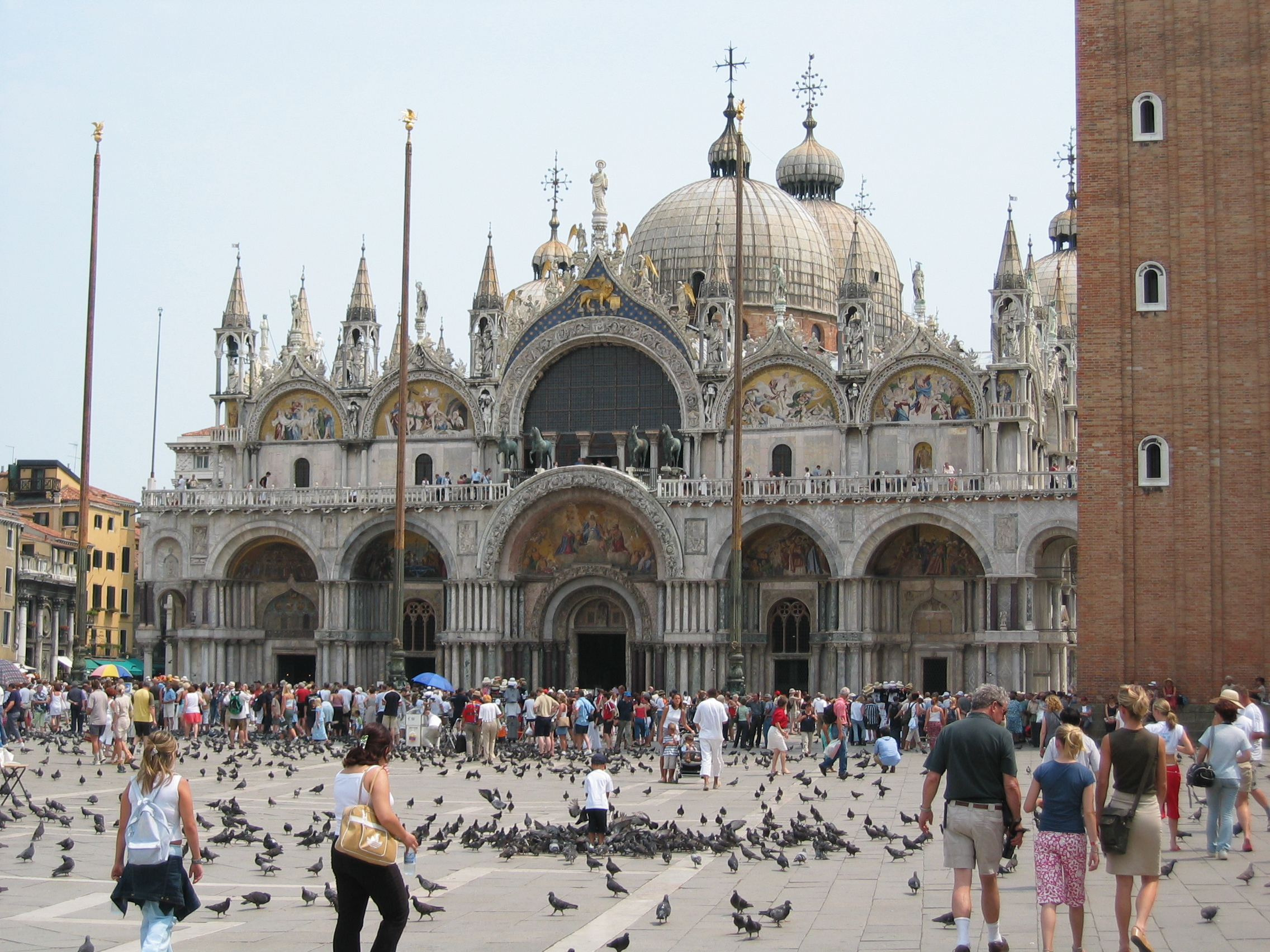 VenedigTürkçe: San Marco Bazilikası